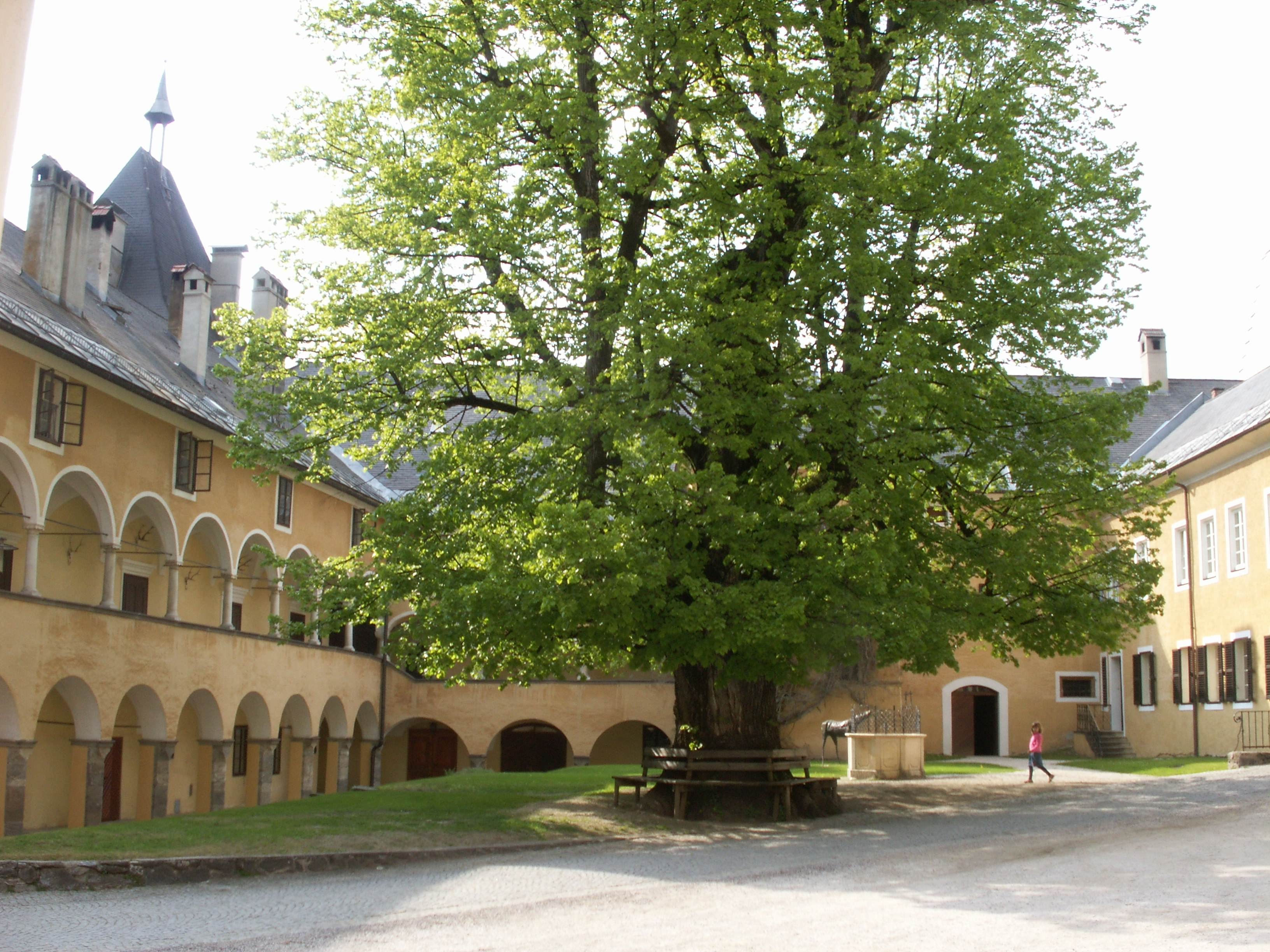 Inner courtyard in the monestry of Millstatt district Spittal an der Drau in Carinthia / Austria / EU. In the middle of the arcade court stands a lime tree and a fountain. The pillars of the arcade court may originate from a former first floor of the cloister. This media shows the natural monument in Carinthia with the ID Sp 01.